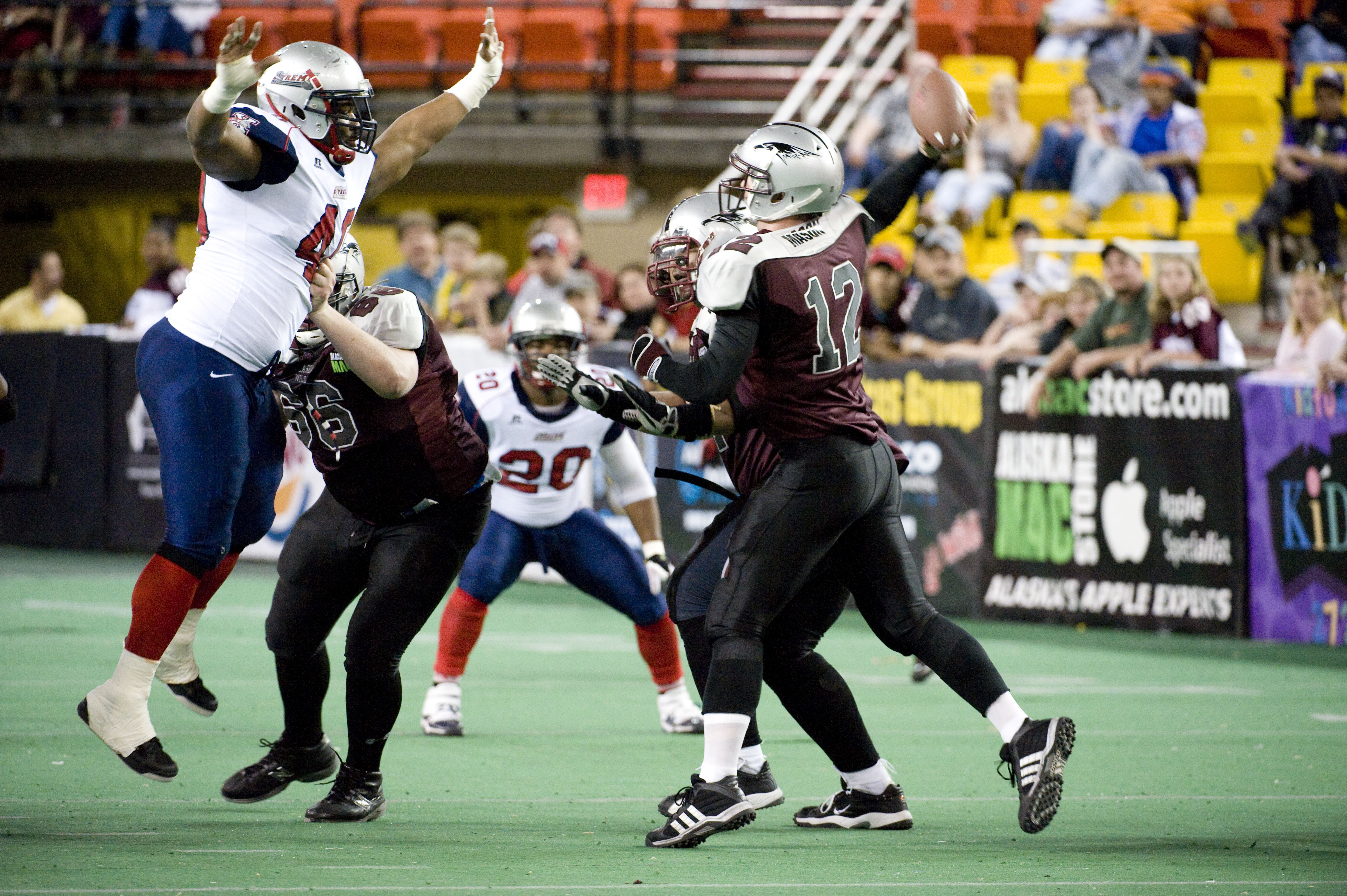 Staff Sgt. Earl Mason throws the football down field against the Bloomington Extreme May 4, 2009. Mason is the non-commission officer in charge of emergency management of logistics from the 3rd Civil Engineer Squadron that also plays for the Alaska Wild an indoor professional football team. VIRIN: 090504-F-3108S-001